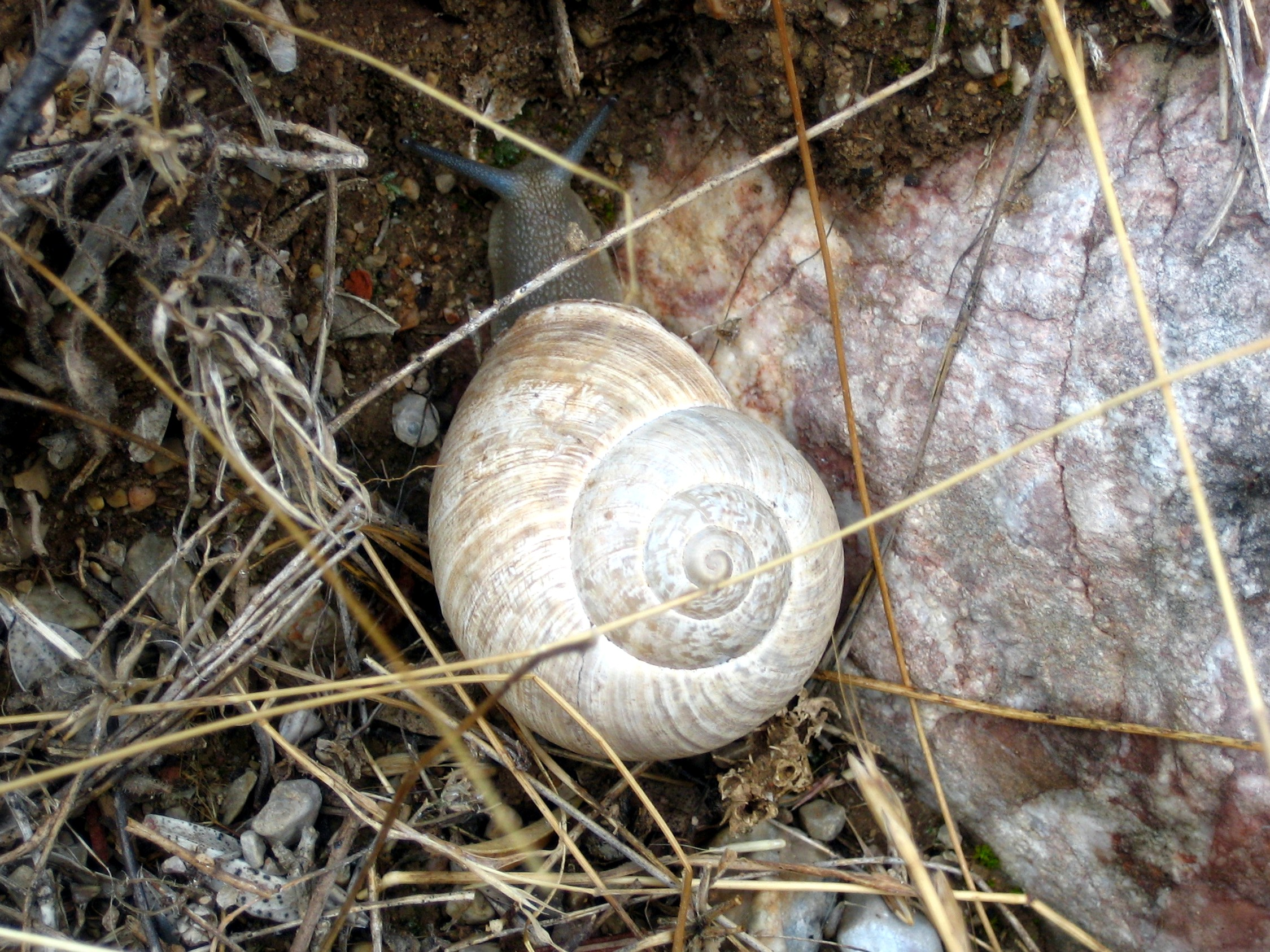 Iberus gualtieranus alonensis, Alfara de Carles (near Tortosa), Tarragona, Catalonia